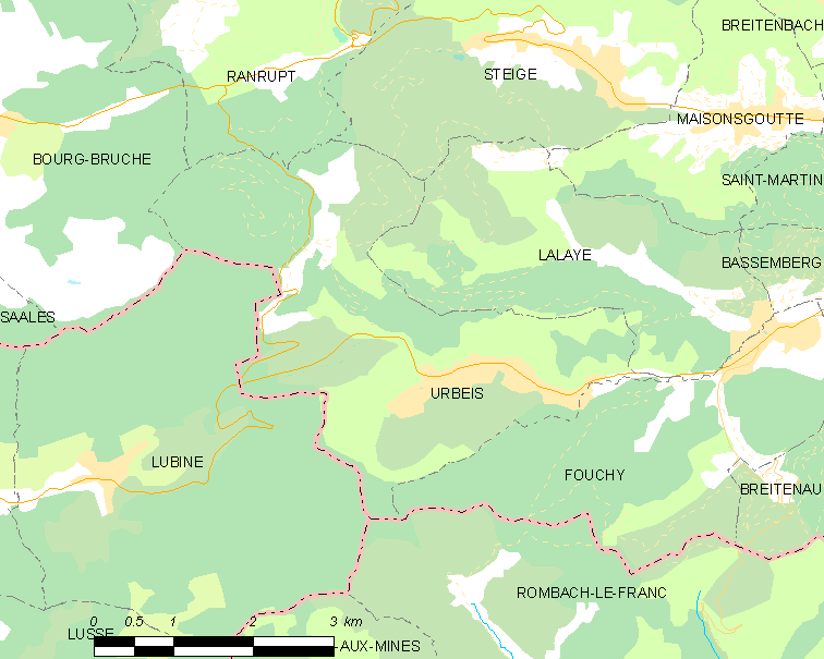 Map of French municipality